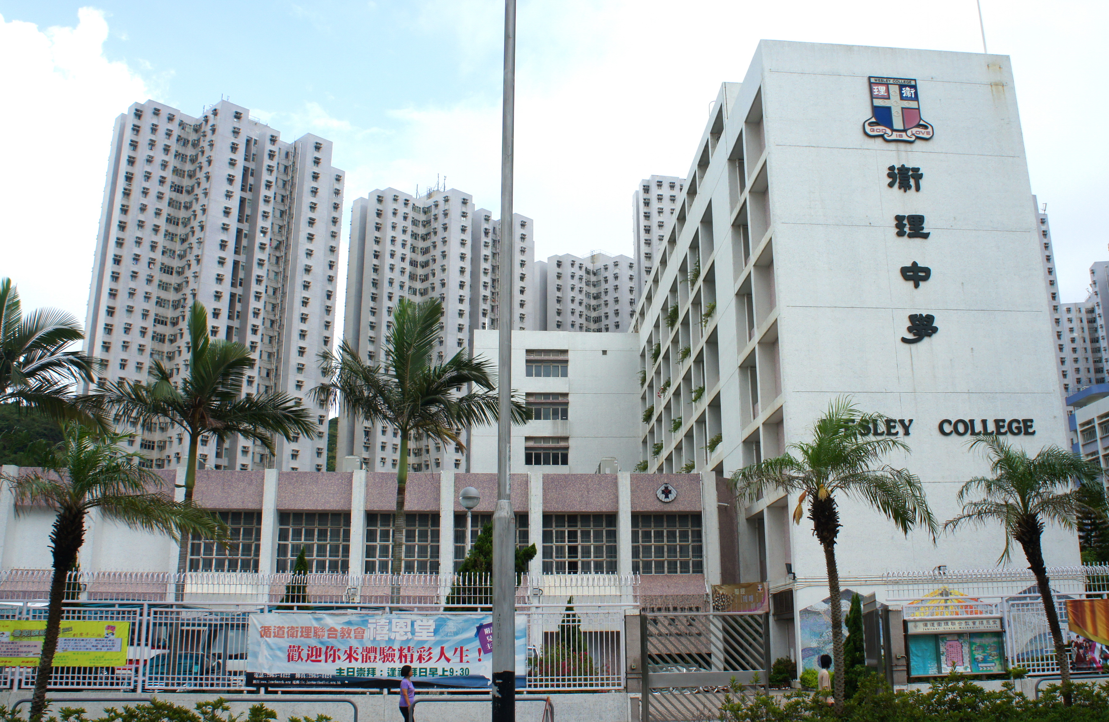 The MCHK Wesley College, Siu Sai Wan, Hong Kong.